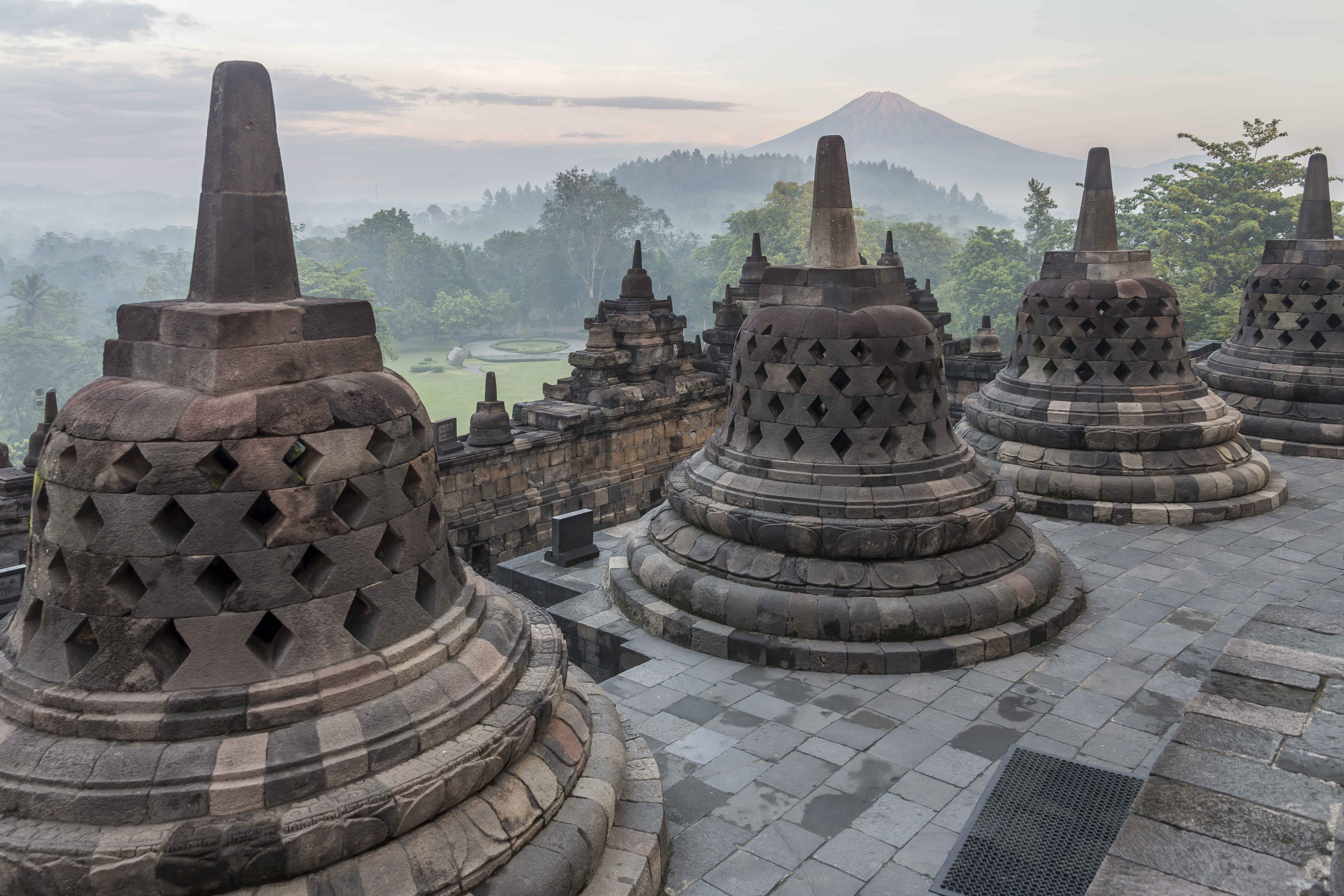 Borobudur temple Park, Indonesia: Early morning atmosphere in Borobudu Temple Park.